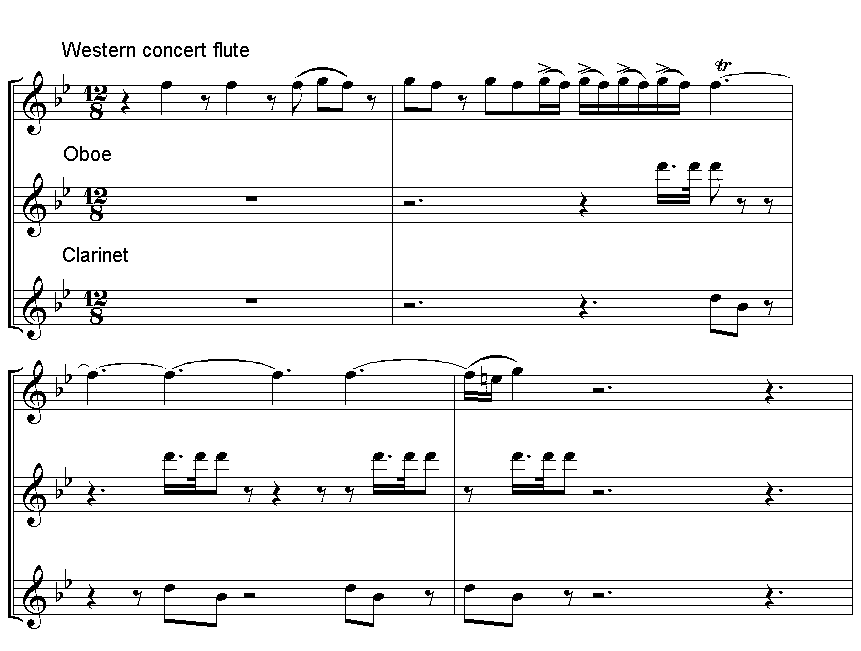 Symphony No. 6 in F major Op. 68 "Pastoral Symphony" - II "Scene at the brook", Andante molto mosso (several bars)